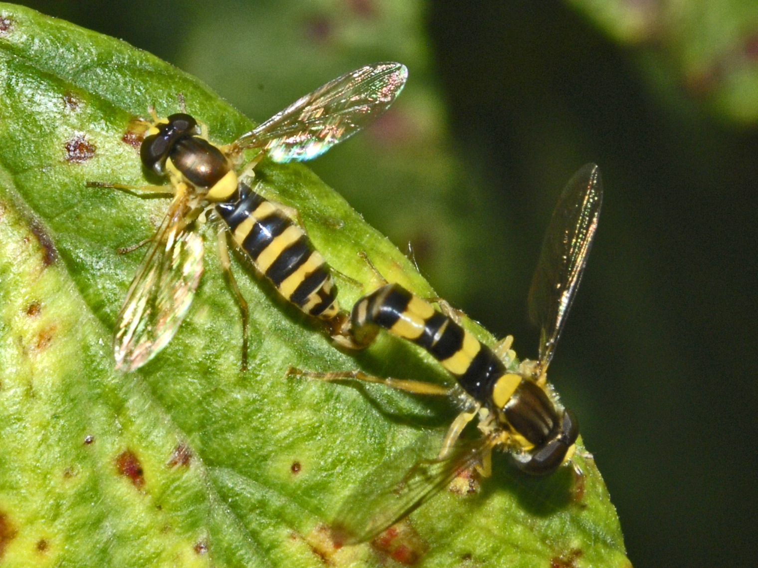 Sphaerophoria scripta, mating pair. Cerreto, Alessandria, Italy